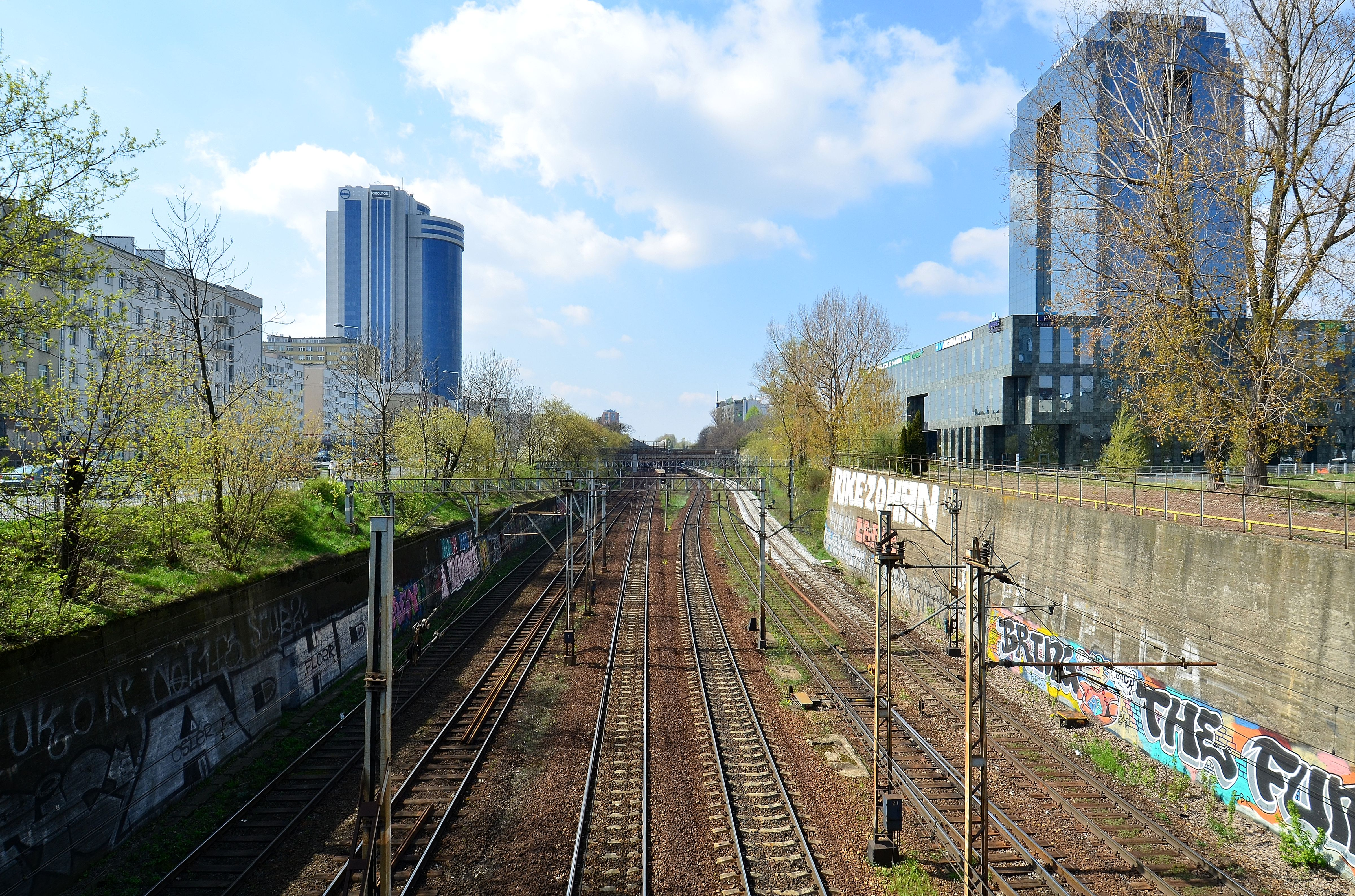 Cross-city line near Żelazna Street, view to the west